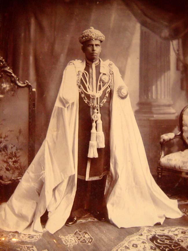 Rama Varma XV, the ruler of the princely state of Cochin.